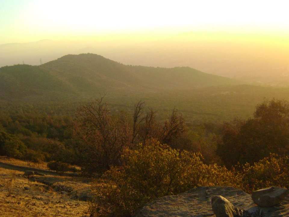 Vista desde el Sendero de Chile de Bosque El Panul Abril 2012